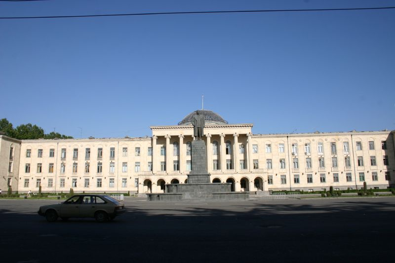 Gori city hall